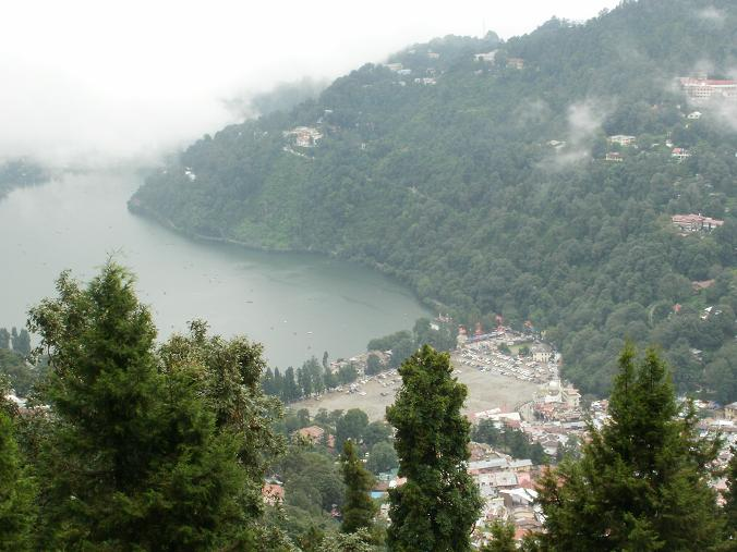 View of Nainital Lake and Town